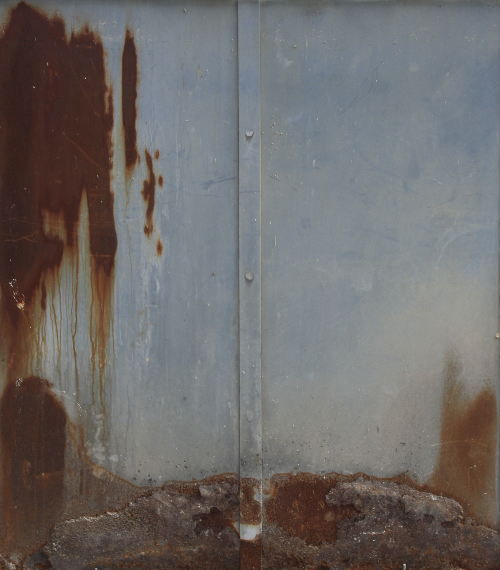 Cement glue texture in France